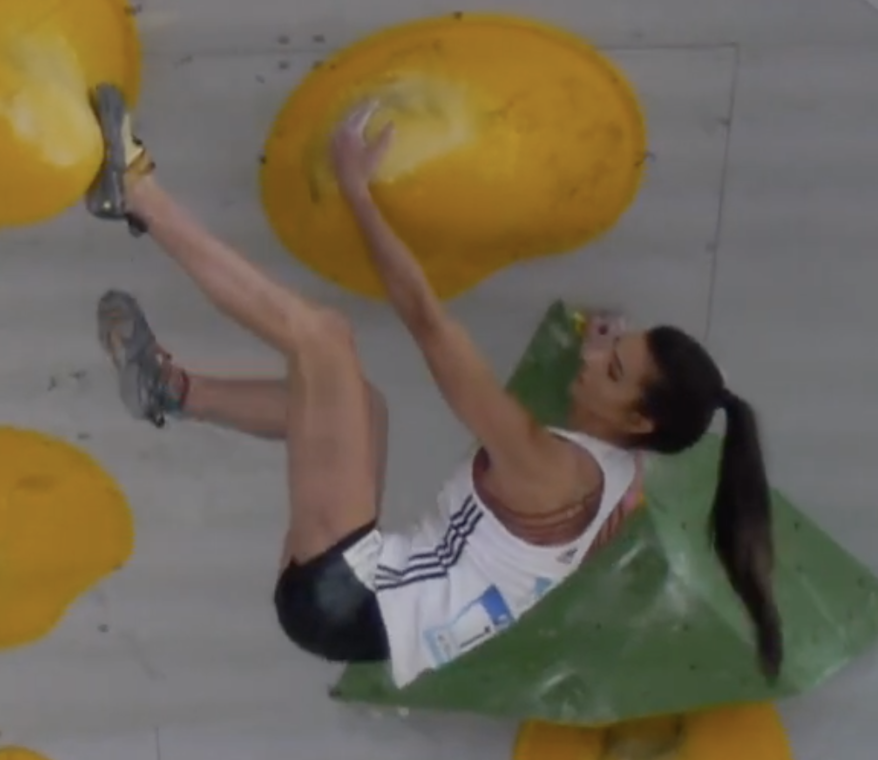 Lučka Rakovec of Sloveniea at Boulder Problem 4, Qualifying Round at the IFSC World Cup Munich 2019